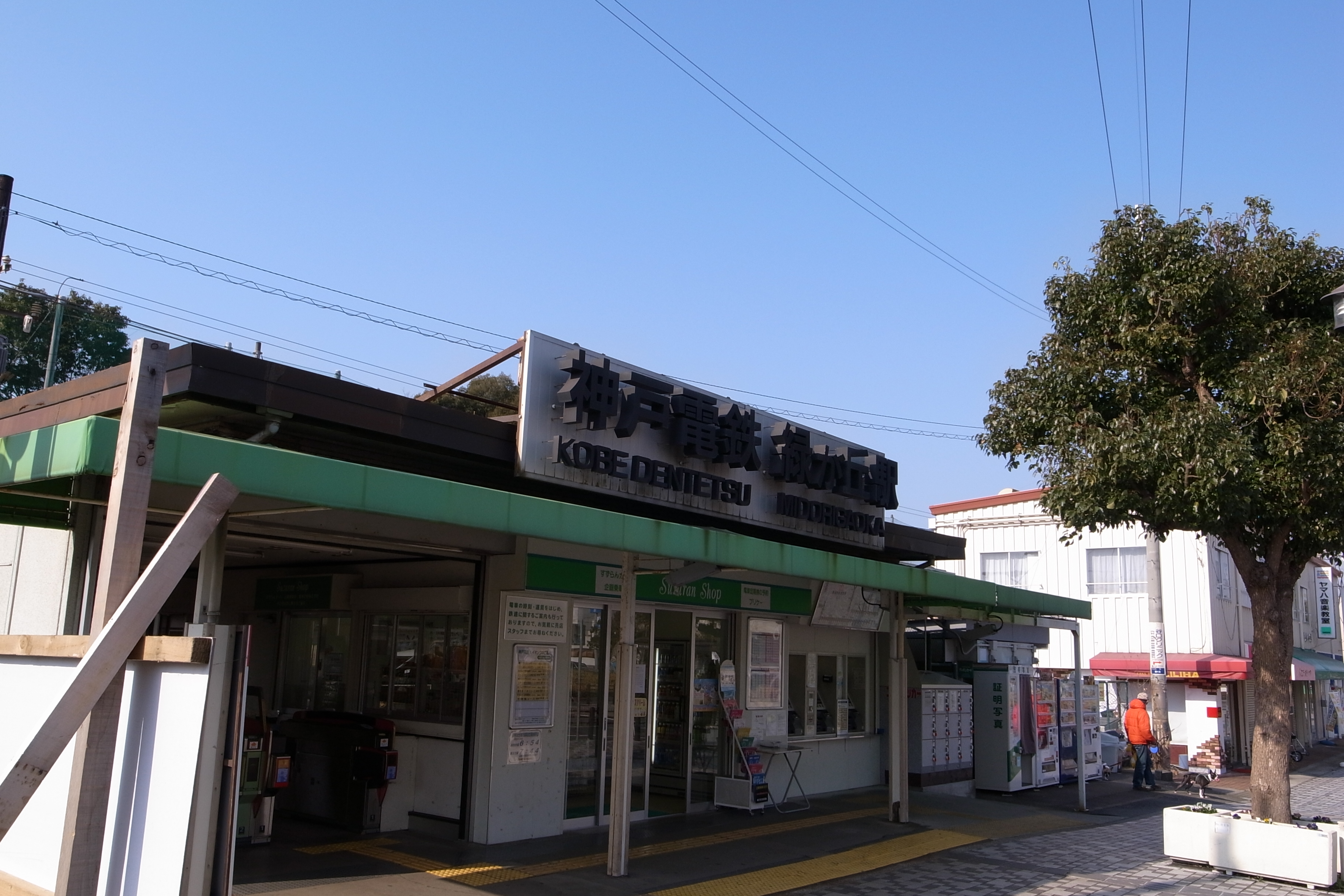 Midorigaoka Station on Kobe Electric Railway Ao Line